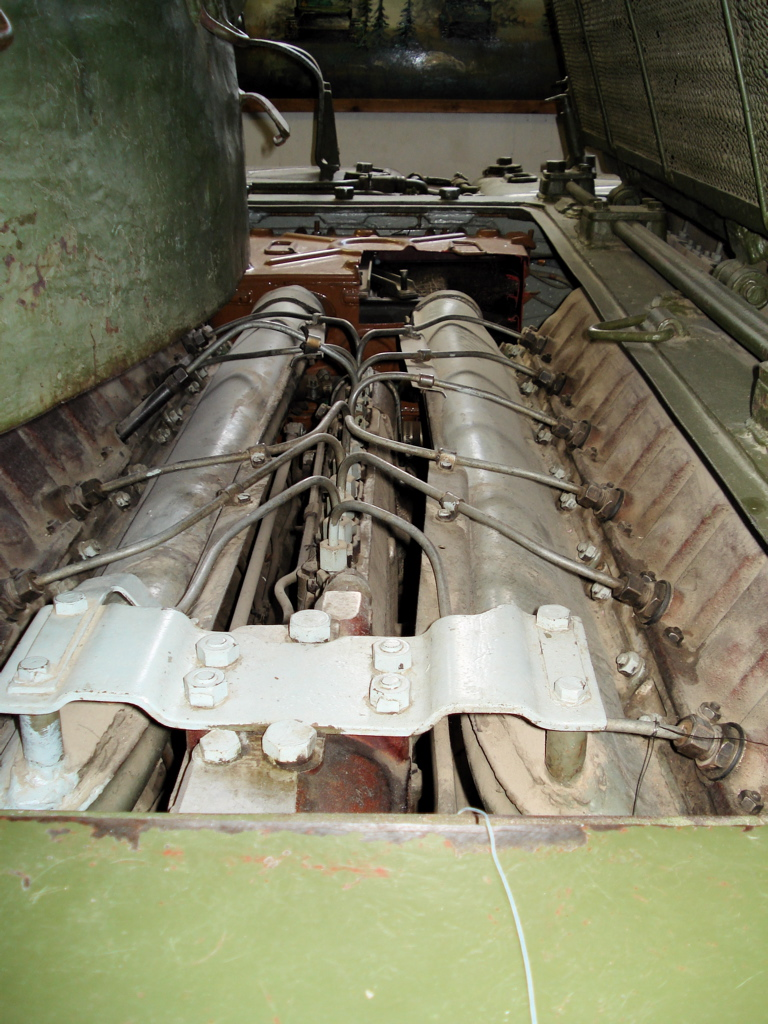 Russian T-54 tank, used by Finland. This model was cut open in for training purposes. Various systems of the tank have been illustrated with different colors. Top view of the engine. Finnish Tank Museum (Panssarimuseo) in Parola.